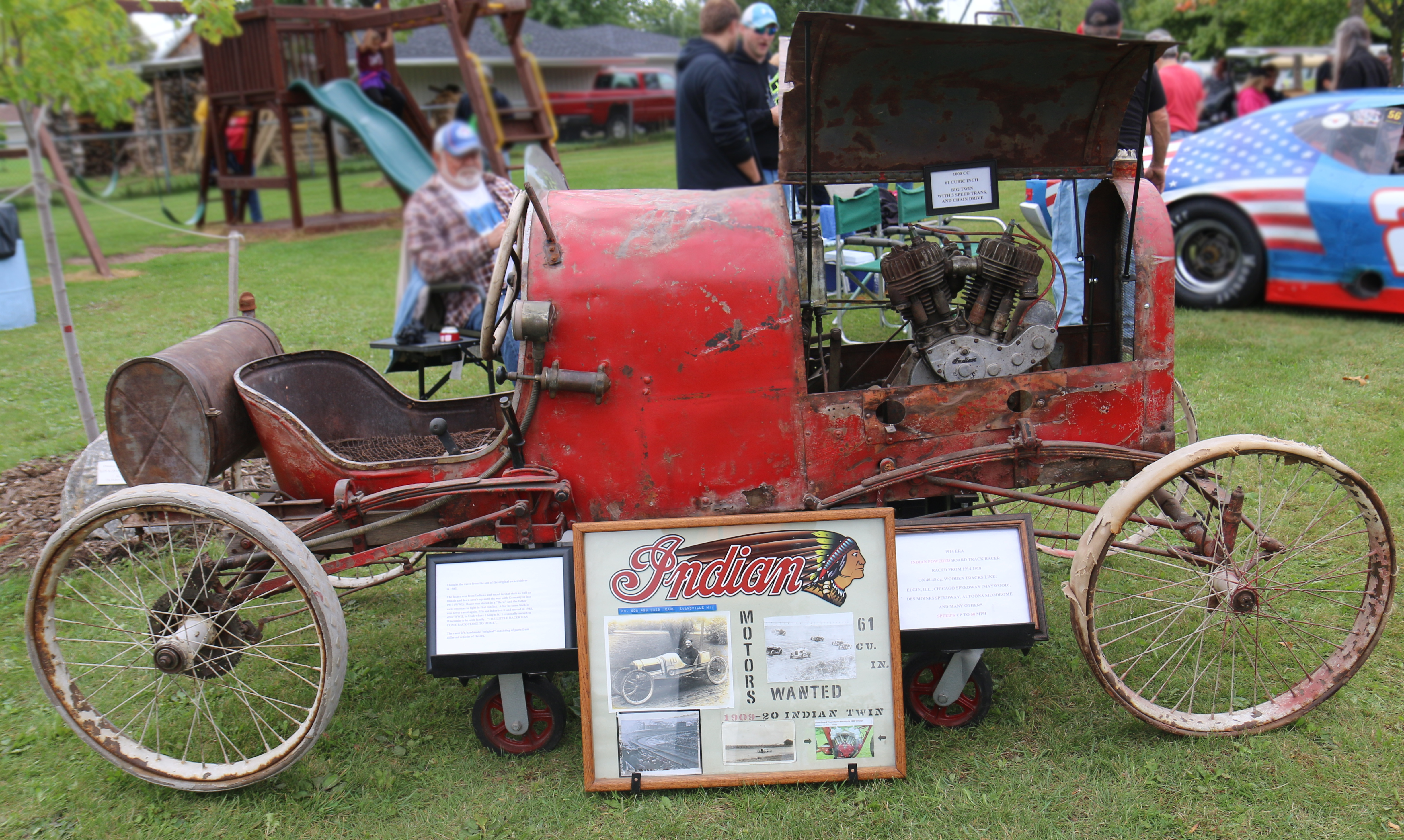 A board track racing car on display at a race car show at Freedom, Wisconsin. It was raced between 1914 and 1918. It was homemade with parts from many models. It is powered by an Indian 61 hp engine. Tracks that it raced at: Elgin (IL), Chicago (Maywood Speedway Park), Des Moines IA (Valley Junction Board Speedway), Altoona Silodrome and more.